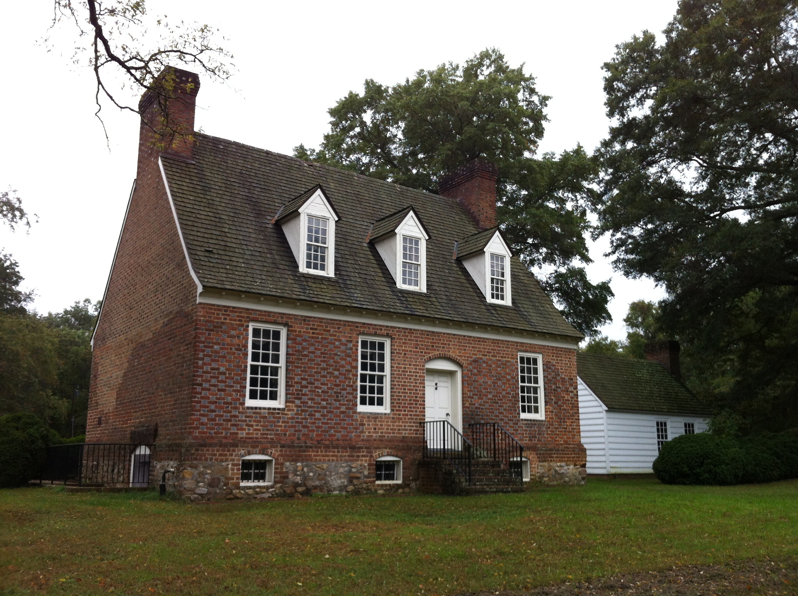 Northwest facade of the William Smallwood house near Marbury, Md.